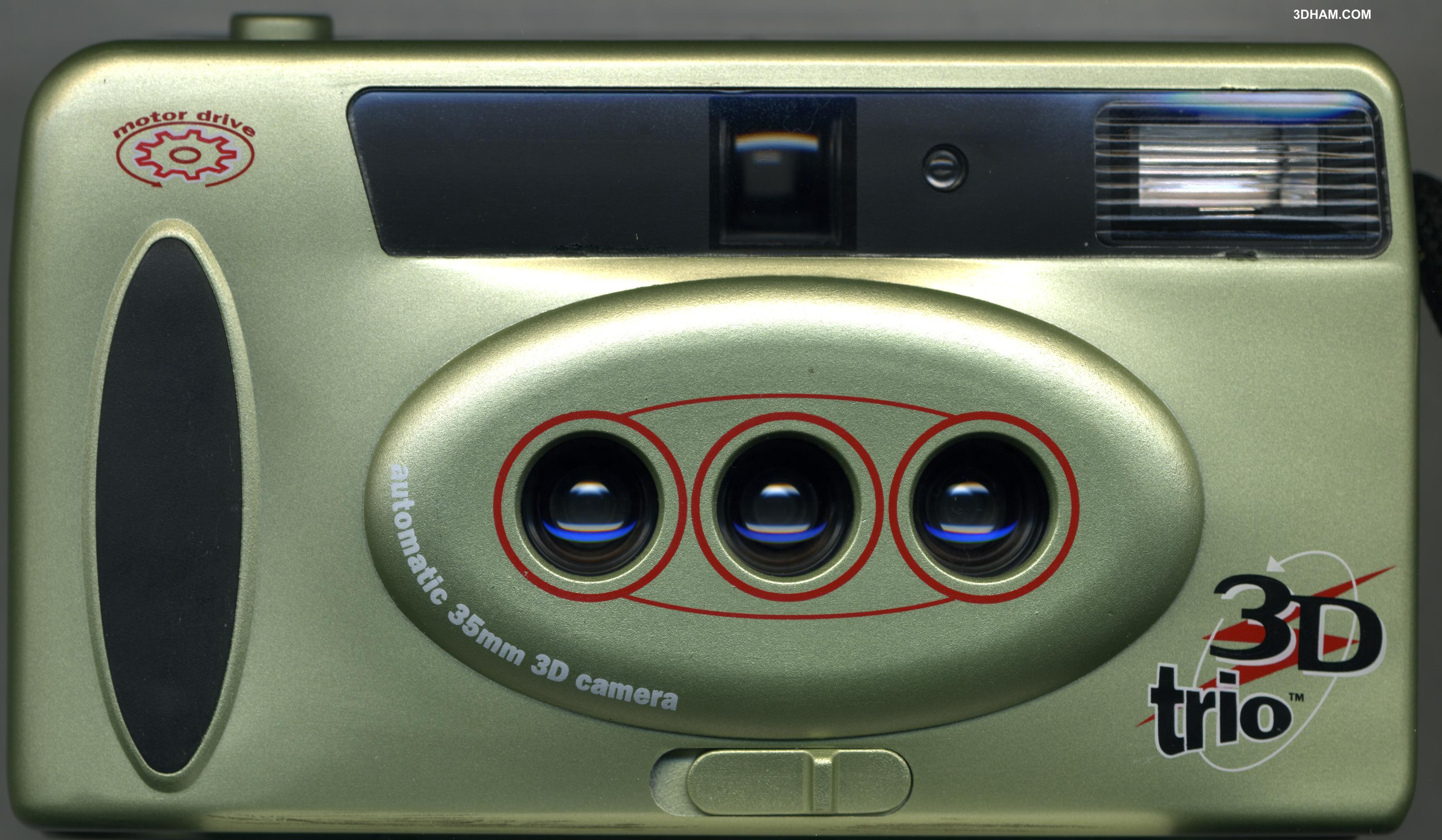 The 3D Trio is probably the most advanced Nimslo clone. It featured motorized film advance, built in lens cover and built in flash, A Trio is shown here with its lens cover open.